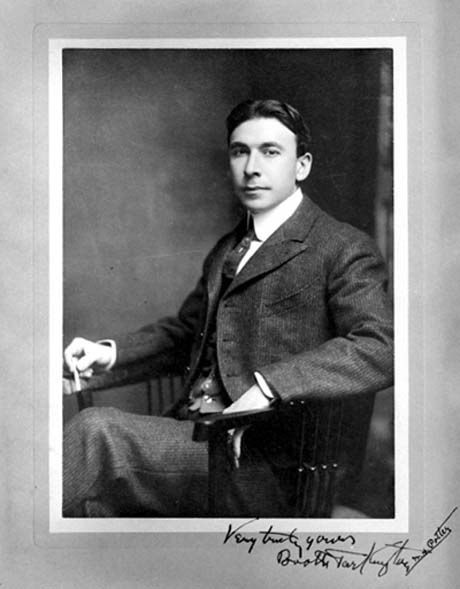 Author Booth Tarkington (1869-1946), approximately 40 years old, dedicated to (? unreadable)